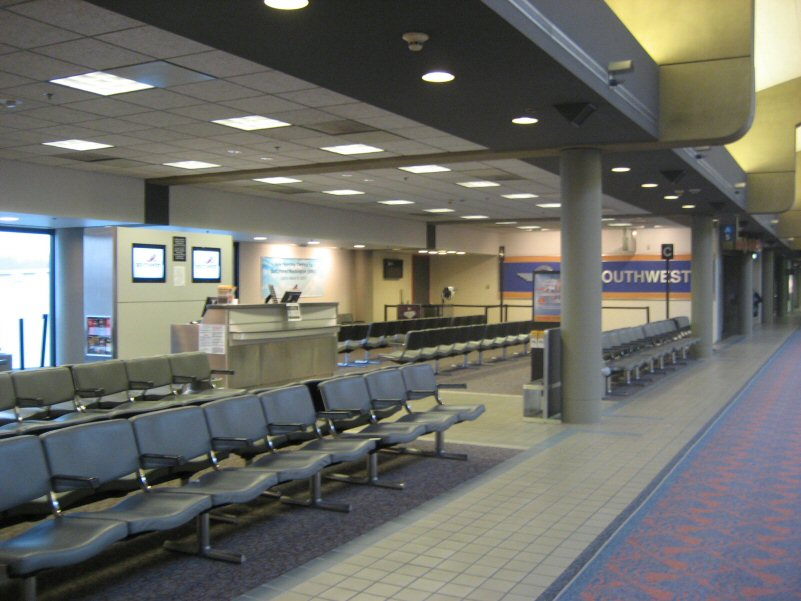 Southwest Airlines gate A5 located in Concourse A.